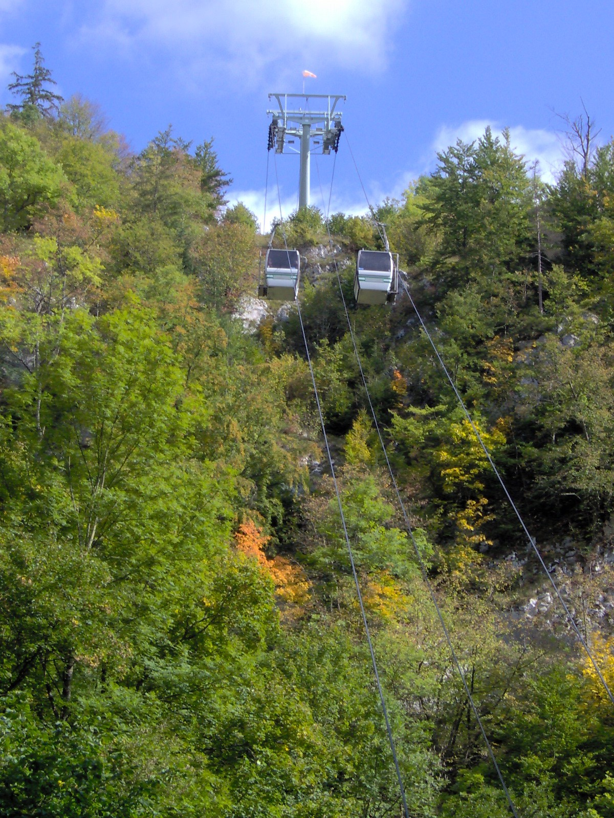 Cableway Punkevní jeskyně - Macocha